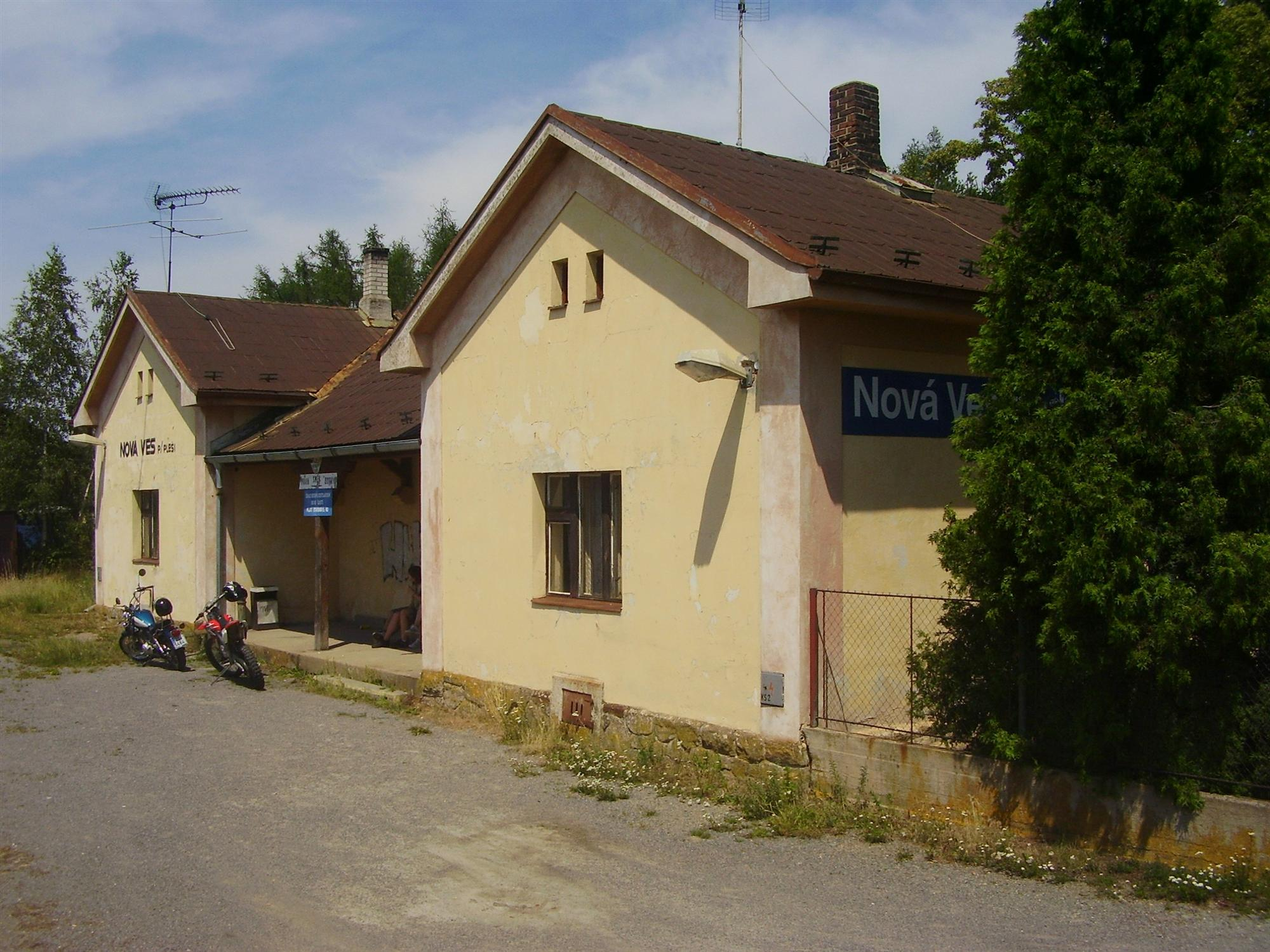 Train station in Nová Ves pod Pleší, Central Bohemian Region